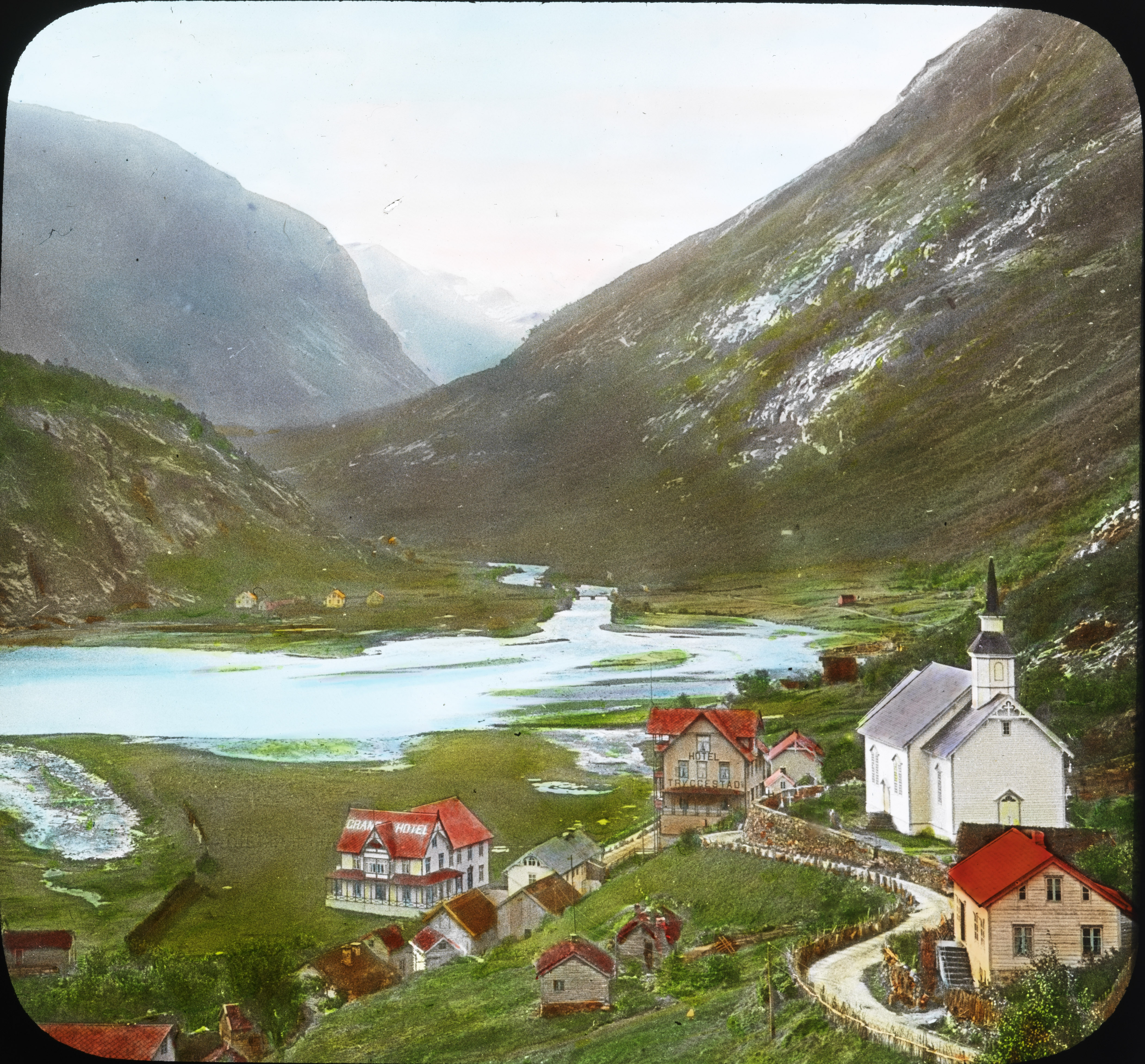 SFFf-1992078.0010 Hellesylt. At the time the photo was taken, (approx. 1891-1903) there were two hotels in Hellesylt , Grand Hotel and Tryggestad Hotel.